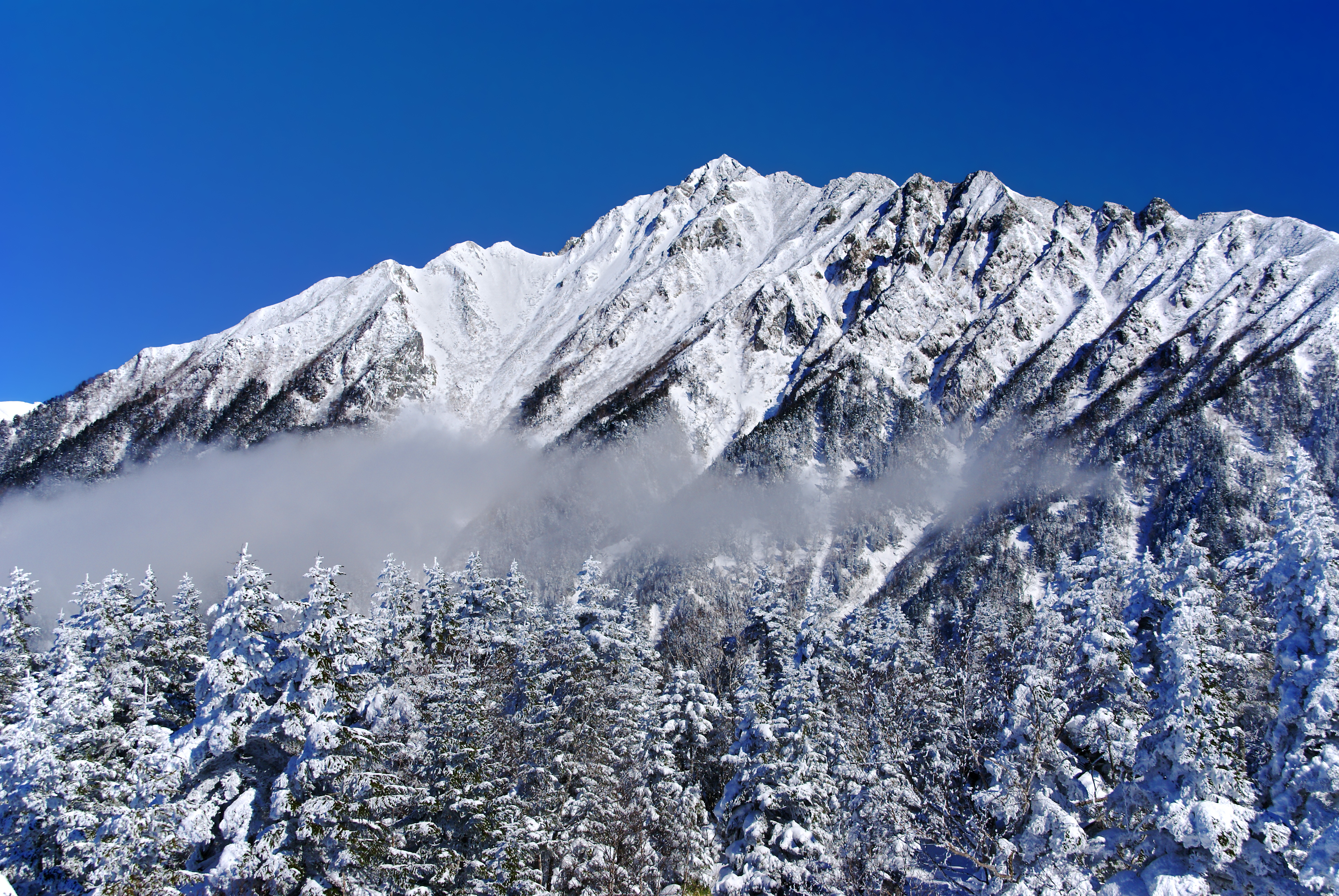 Mount Nishihotaka (2909m) view from Nishihotaka-guchi Station (2156m) of Shinhotaka Ropeway in Takayama Gifu prefecture, Japan.